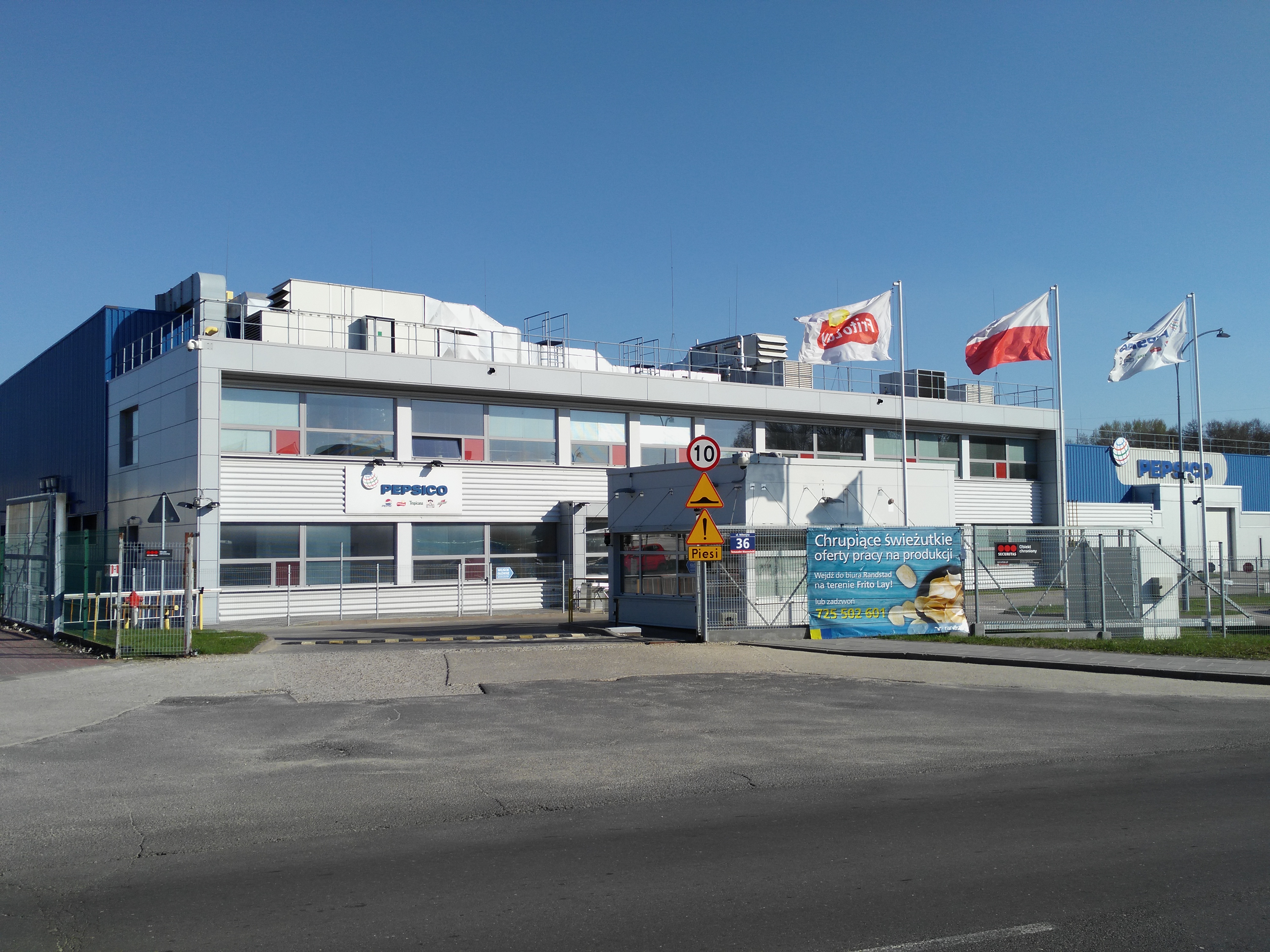 Tomaszowskia fabryka PepsiCo nad rzeką Czarną. Milenijna 36